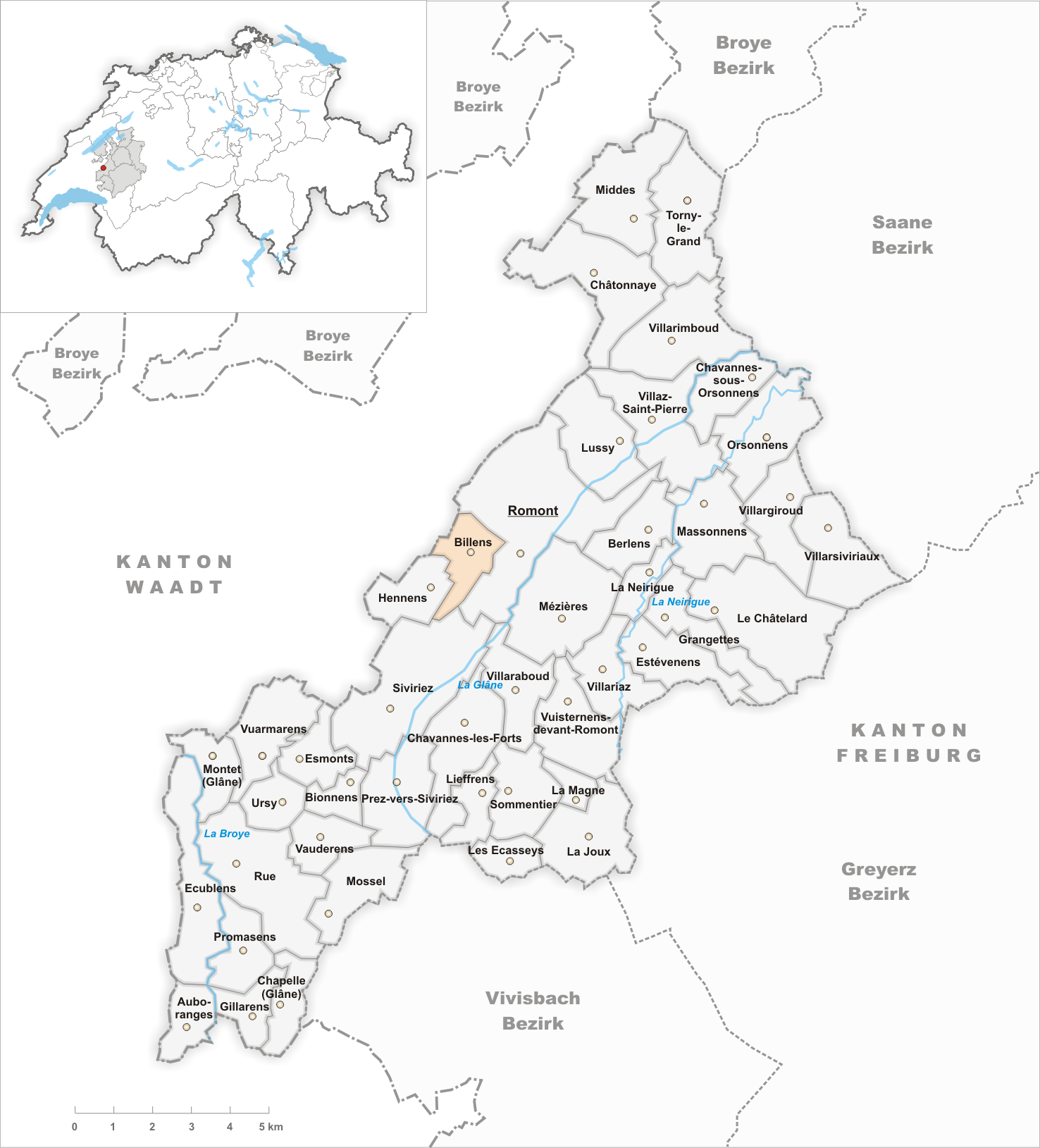 Municipality Billens Artist: Tschubby